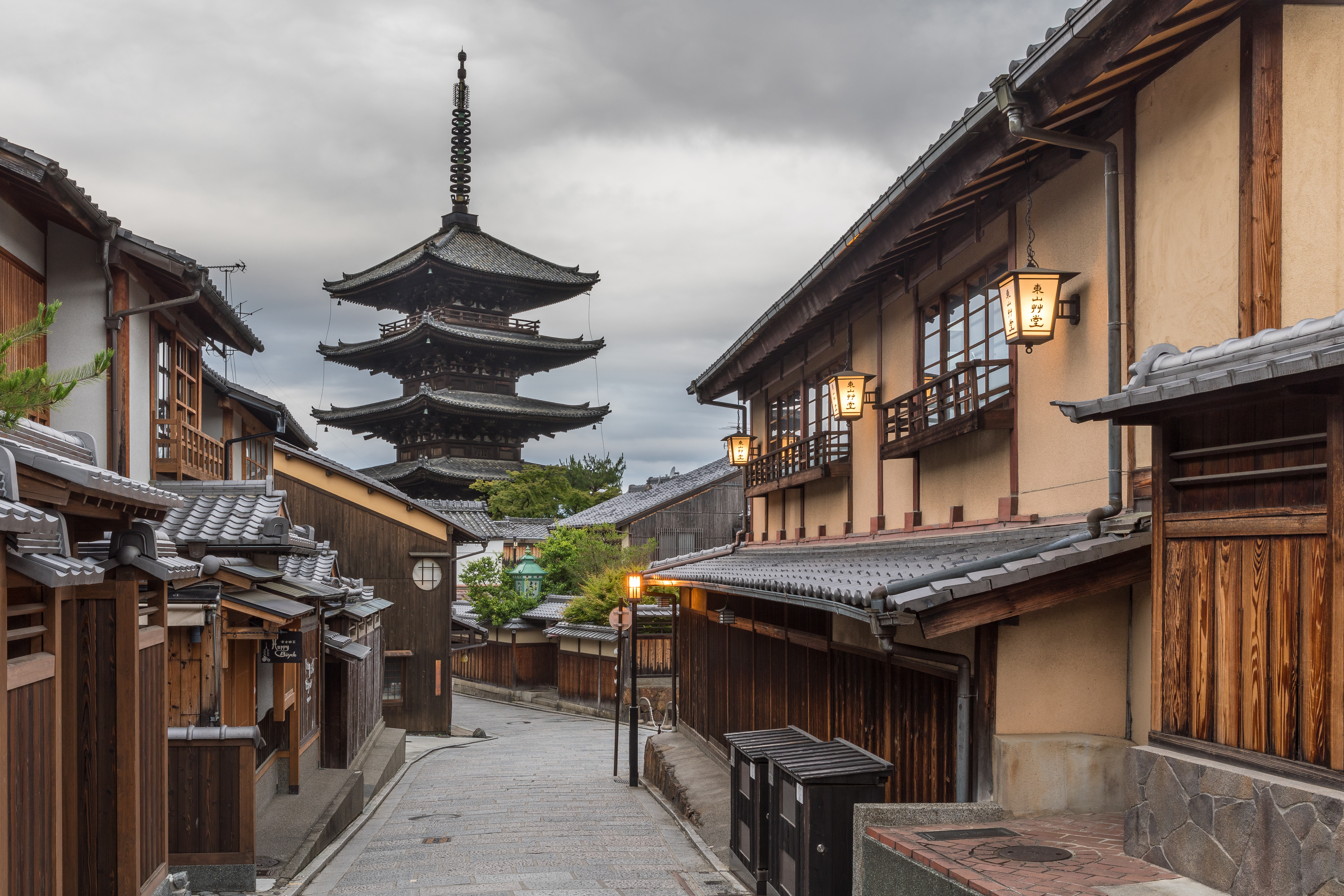 Yasaka-dori, early morning with street lanterns and the Tower of Yasaka (Hokan-ji Temple), 388 Yasaka Kamimachi, Higashiyama-ku, Kyoto, Japan. Important cultural heritage of Kyoto, Hokan-ji is a 46 m (151 ft) high, 5 storey pagoda with a tiled roof that was founded in the 6th century.